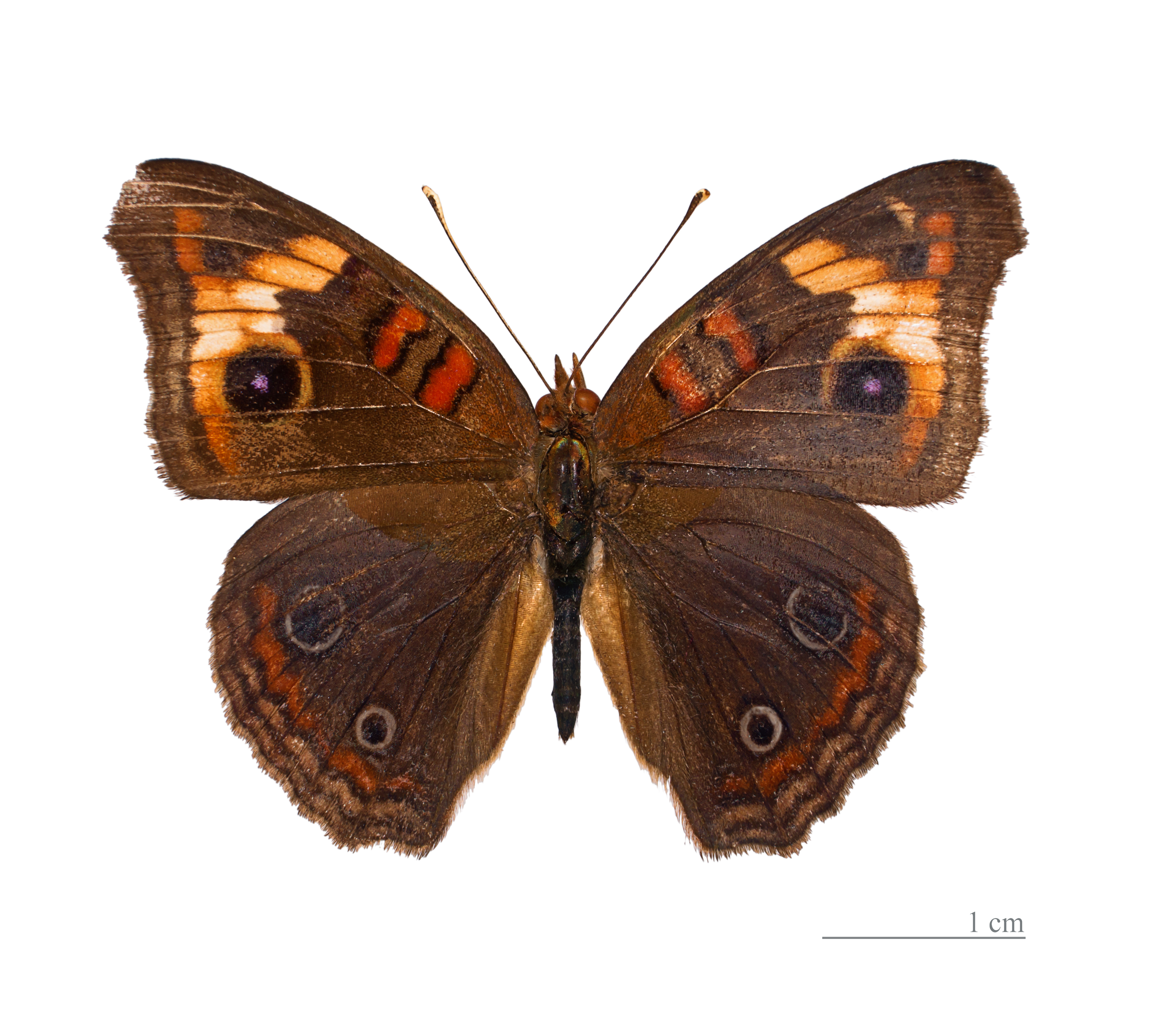 ♂ - Dorsal side Locality : Le Larivot, Cayenne, French Guiana.